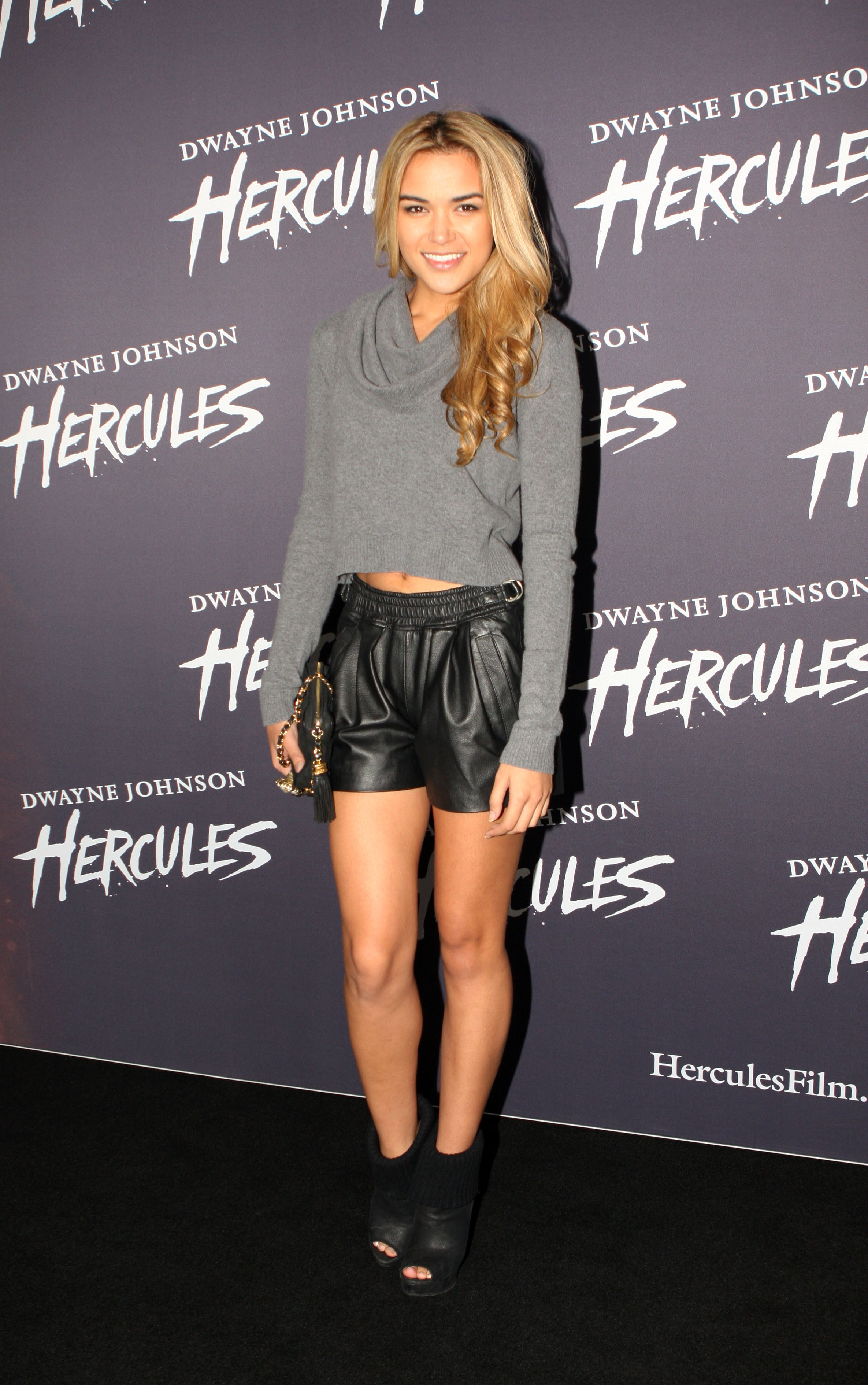 Hercules Premiere, Event Cinemas Sydney Australia